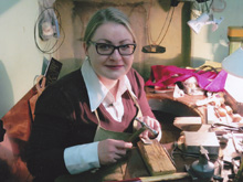 Kadi Kübarsepp in her workshop.